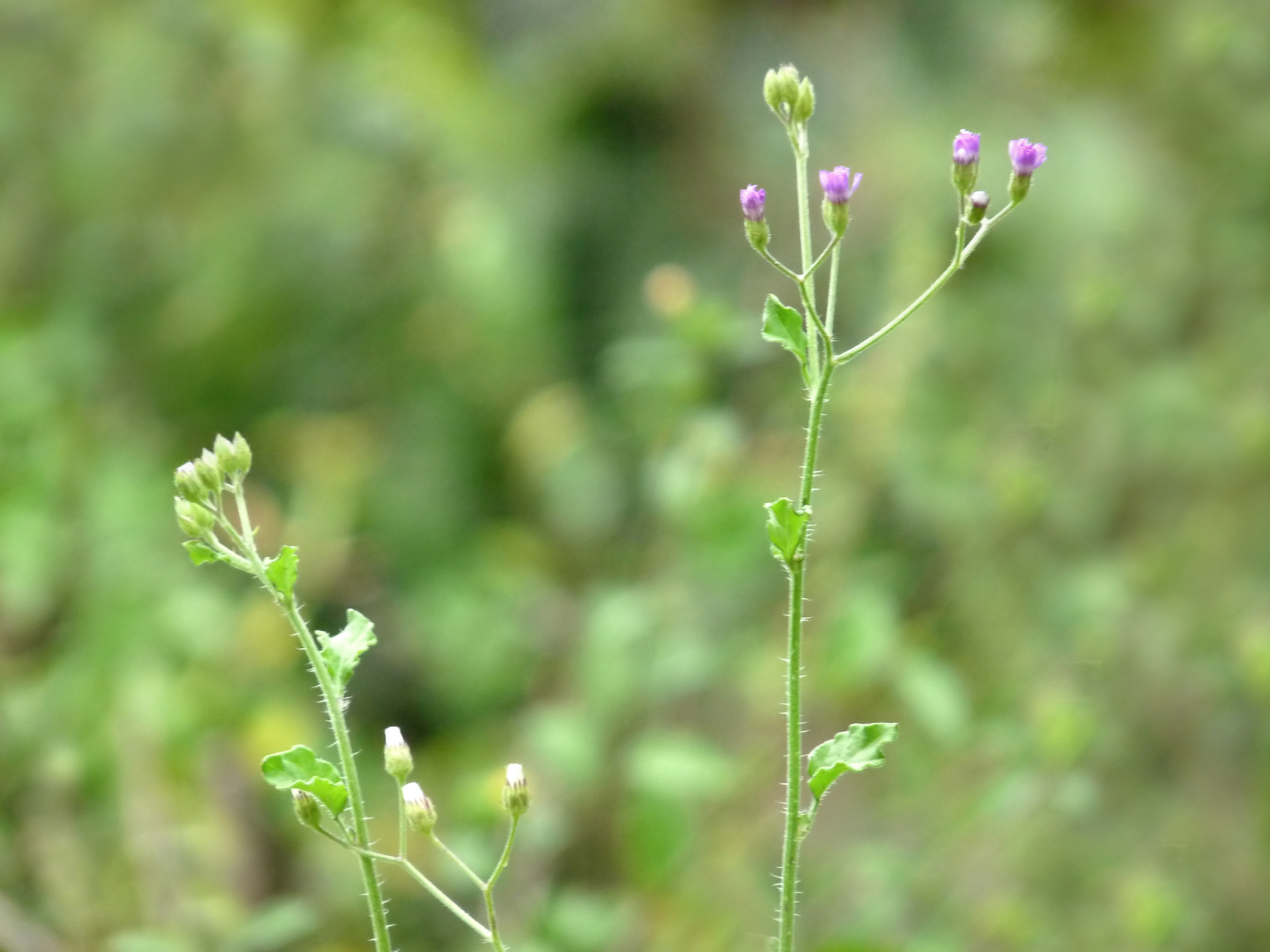 Cyanthillium cinereum, Syn. Vernonia cinerea, known as Common Vernonia and Little Ironweed, is a species of perennial plant from Asteraceae family that can be found in most part of Asia. It can be confused with Emilia sonchifolia, but the flower bracts of the latter are much longer and vase-shaped. The stems branch repeatedly at the top to hold aloft the small cylindrical, purple flower heads. Flowers throughout the year. Originally from Central America, now a pantropical weed, it is sometimes considered native to Western Australia. Found in upland crop areas, waste places and roadsides throughout India.